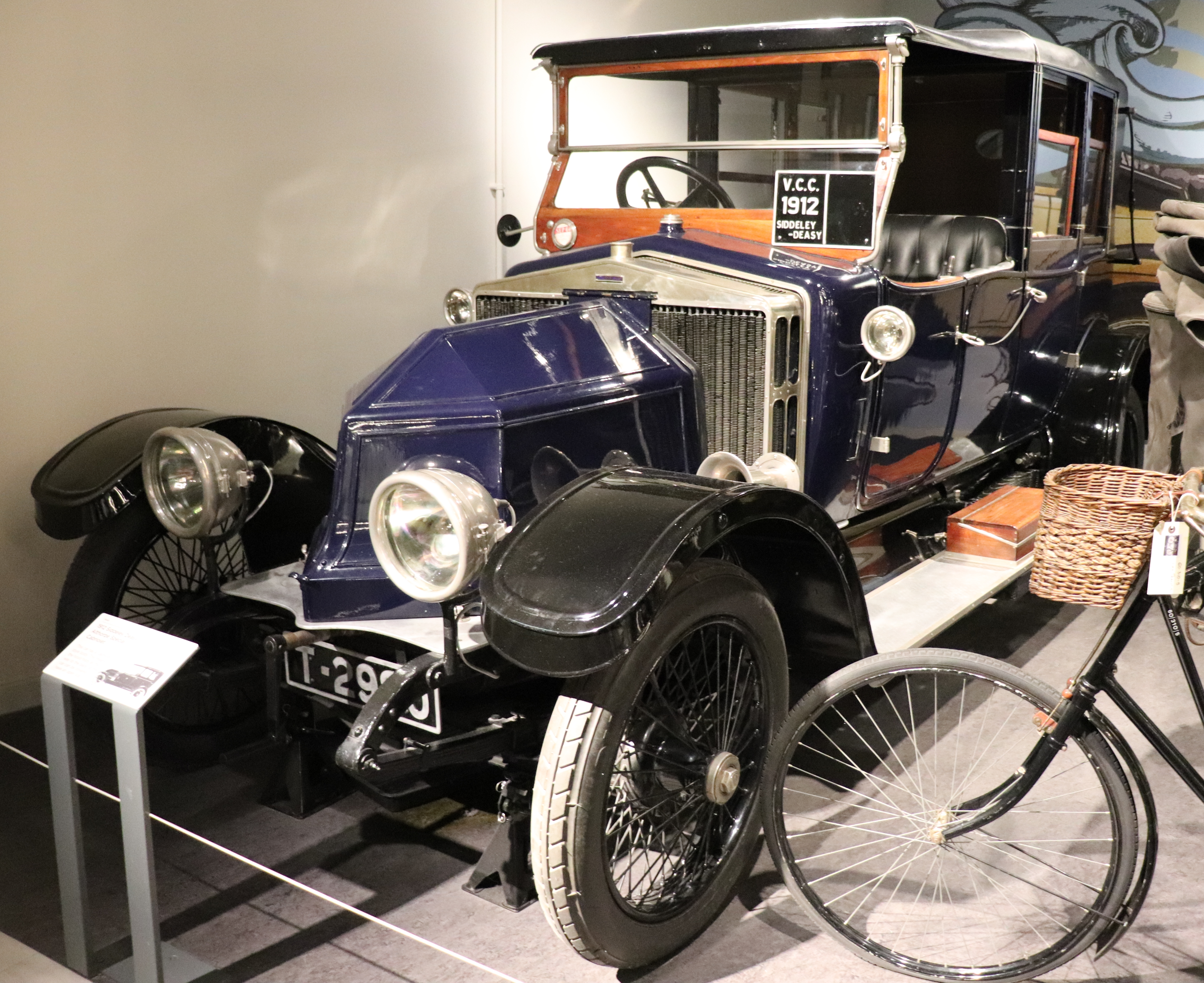 1912 Siddeley-Deasy 18-24 Althrope Special Cabriolet Taken in the Coventry Transport Museum